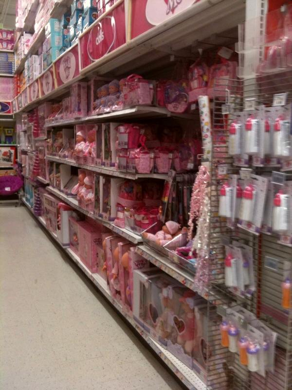 Shelves with pink girls toys, Canada 2011